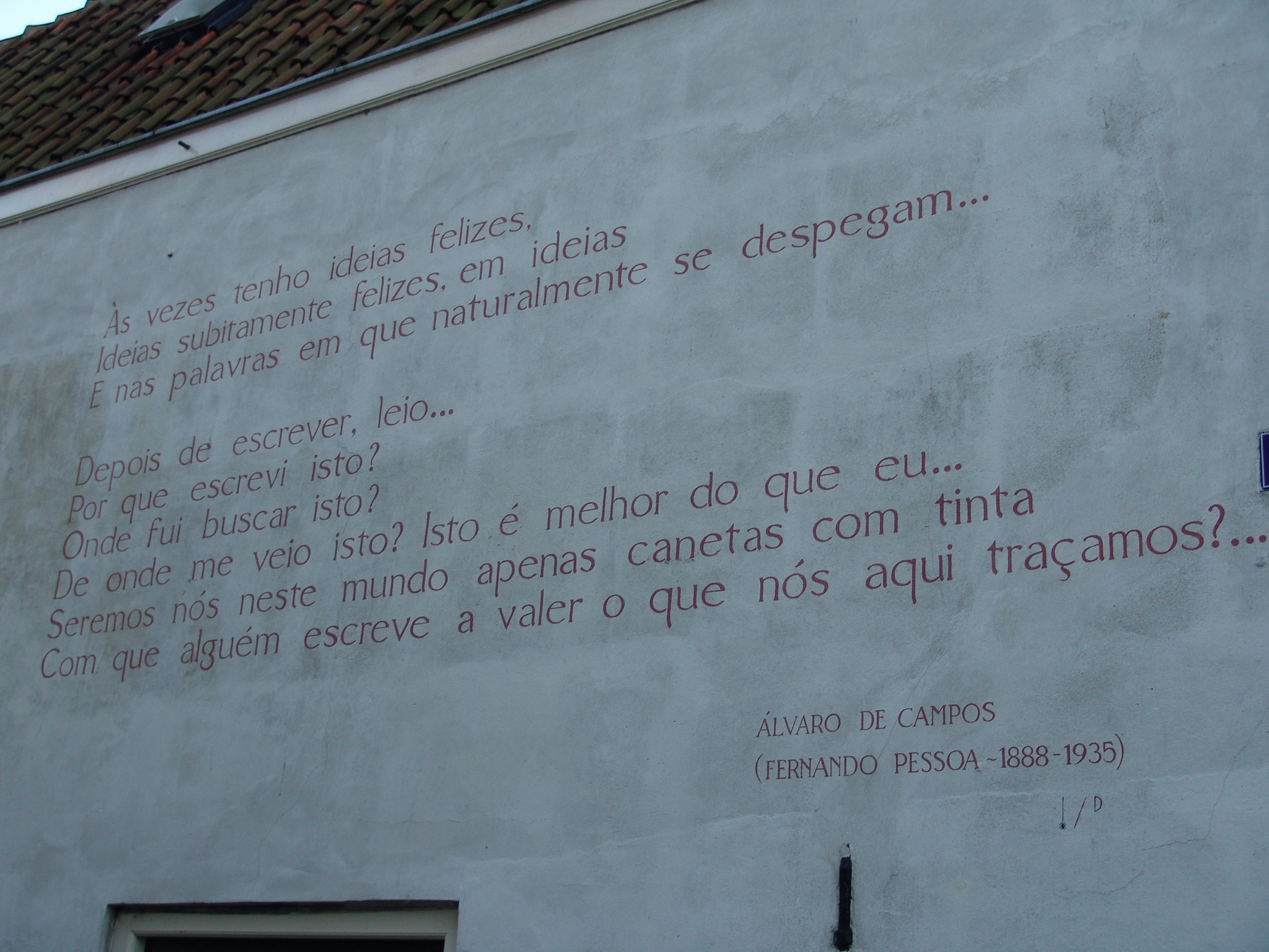 Wallpoem in the city of Leiden (Vliet 46) in the Netherlands.